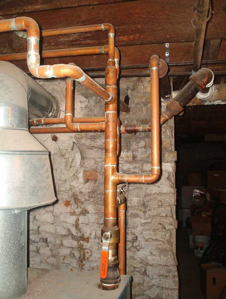 Water pipes. Photo by User:Hephaestos Jan 25 2004